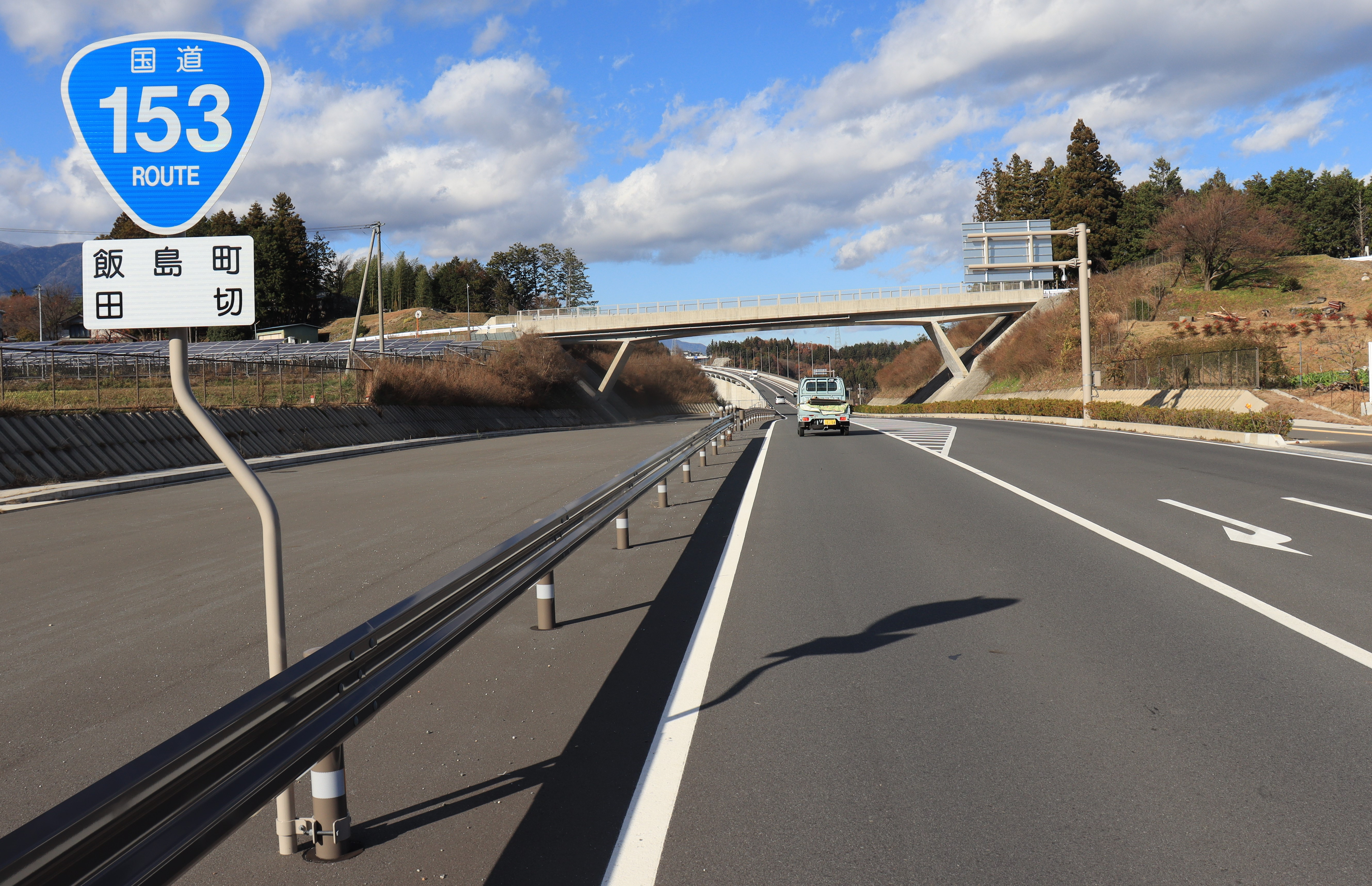 Inan Bypass of Route 153 in Tagiri, Iijima, Nagano Prefecture, Japan.